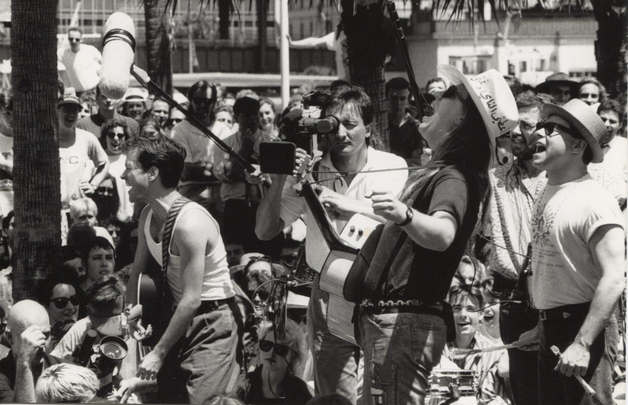 Violent Femmes playing an impromptu day concert near Sydney Opera House 1990. I'd guess they were singing "Add it Up"....